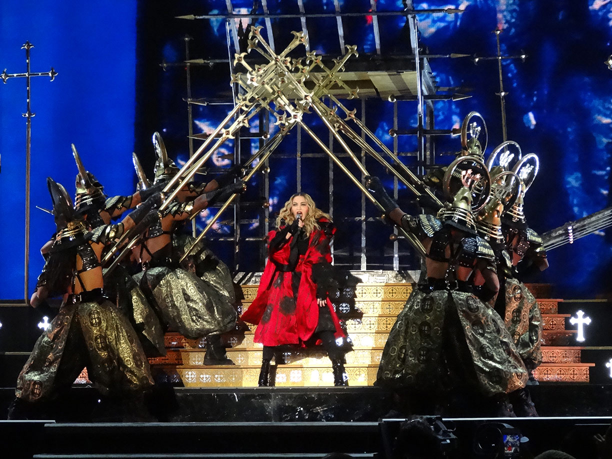 Madonna performing "Iconic" during her Rebel Heart Tour concert in Antwerp, Belgium on November 28, 2015.